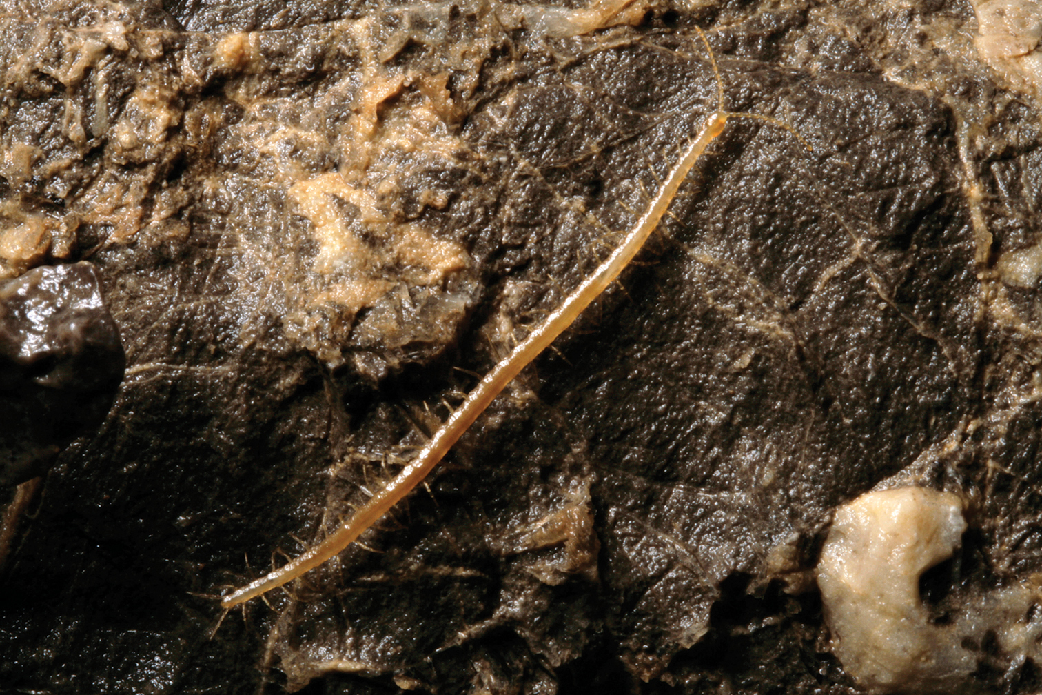 Geophilus hadesi - habitus of male specimen (CBSS - CHP515). Photo taken in situ in the Lukina jama – Trojama cave system, at -980 m below the surface (Fig. 22), 1–3 August 2011.